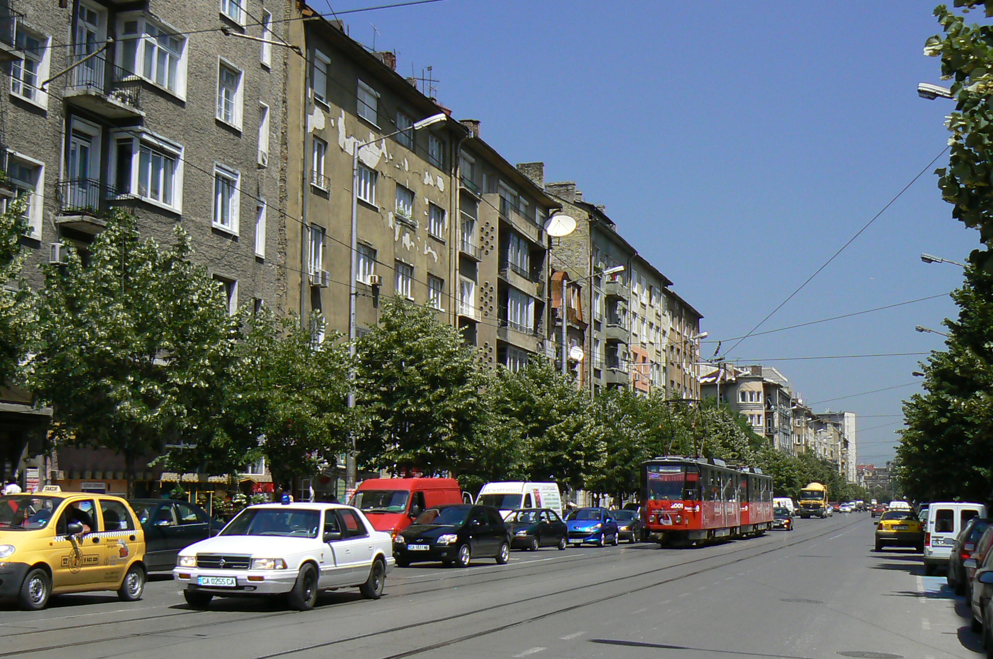 "Hristo Botev" Blvd in Sofia, Bulgaria, as seen from Pette Kyosheta (The Five corners) to Macedonia square